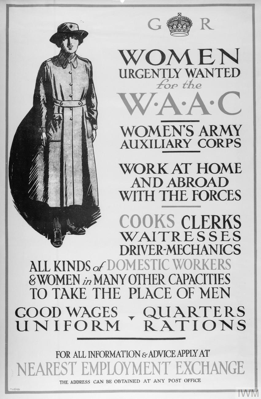 Propaganda Posters of the First World War Ministry of Labour poster for the Women's Army Auxiliary Corps reading: 'Women urgently wanted for the WAAC. Work at home and abroad with the Forces'.